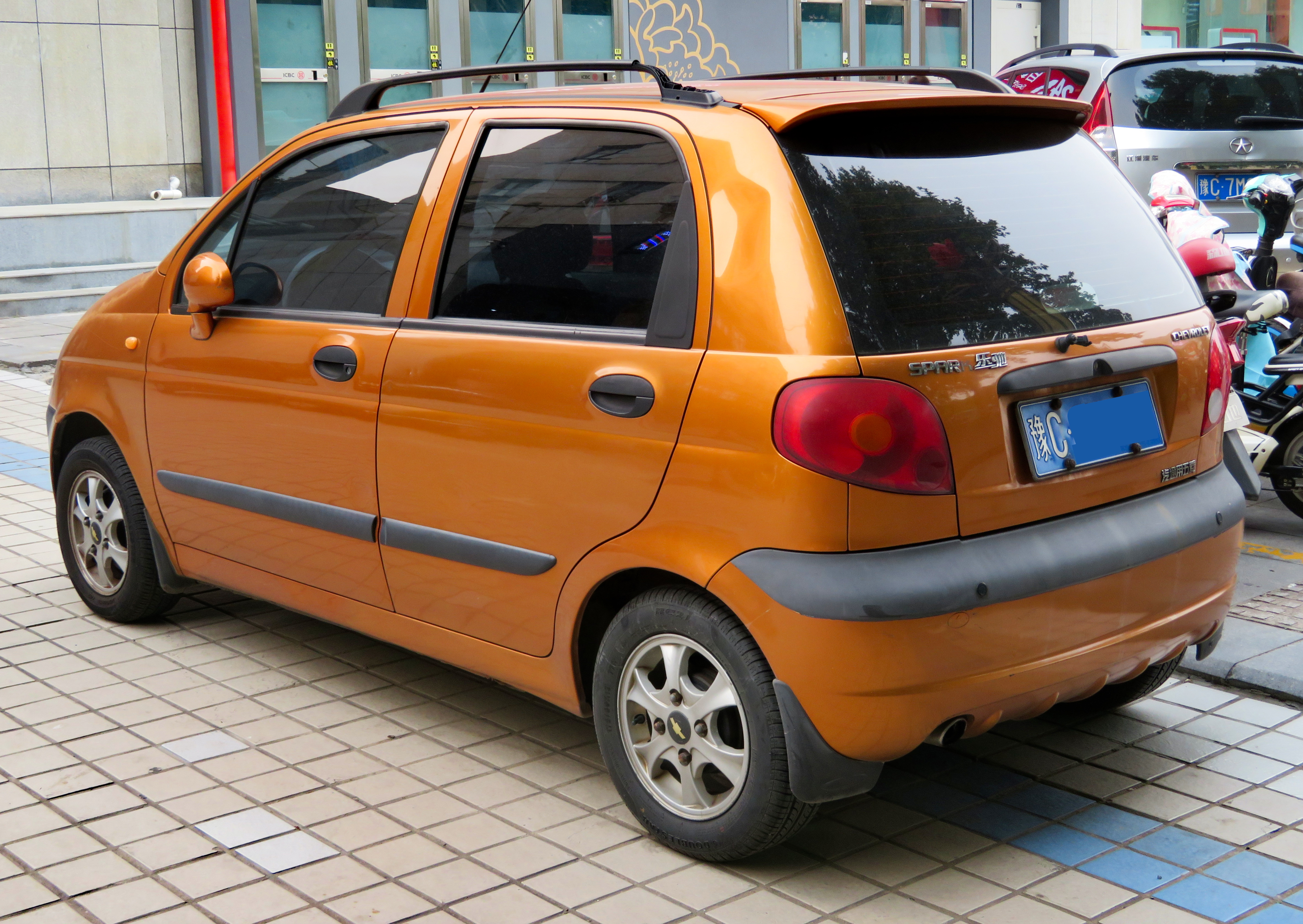 A 2010 SAIC-GM-Wuling Chevrolet Spark (Lechi) photographed in Xigong District, Luoyang, Henan province, China